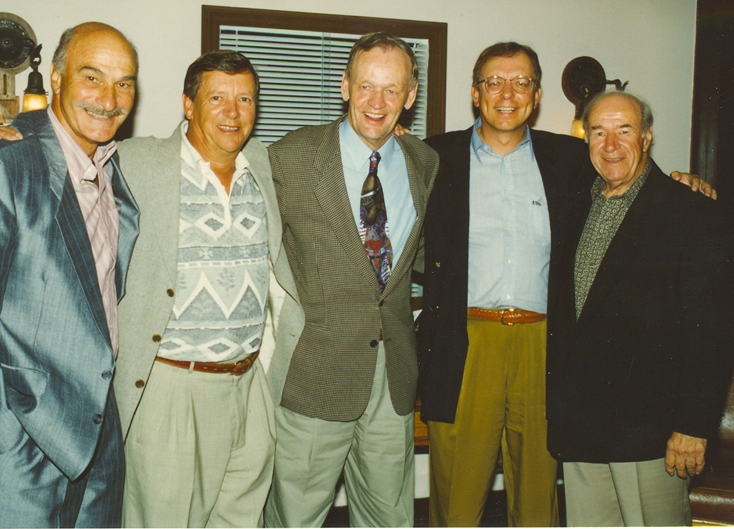 From left to right Marcel Vezina is at left, and in the middle, former prime minister of Canada, Jean Chretien, far right, Tony Blais.